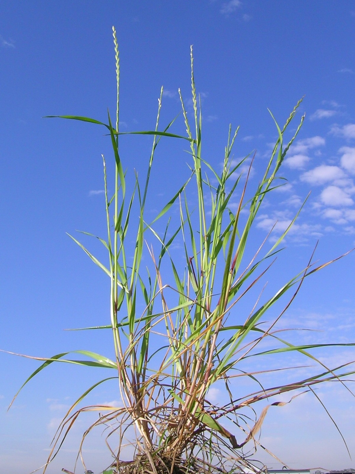 A nutritious cool-season forage that has lower production and shorter growing season than perennial rye, Italian rye or their hybrids.